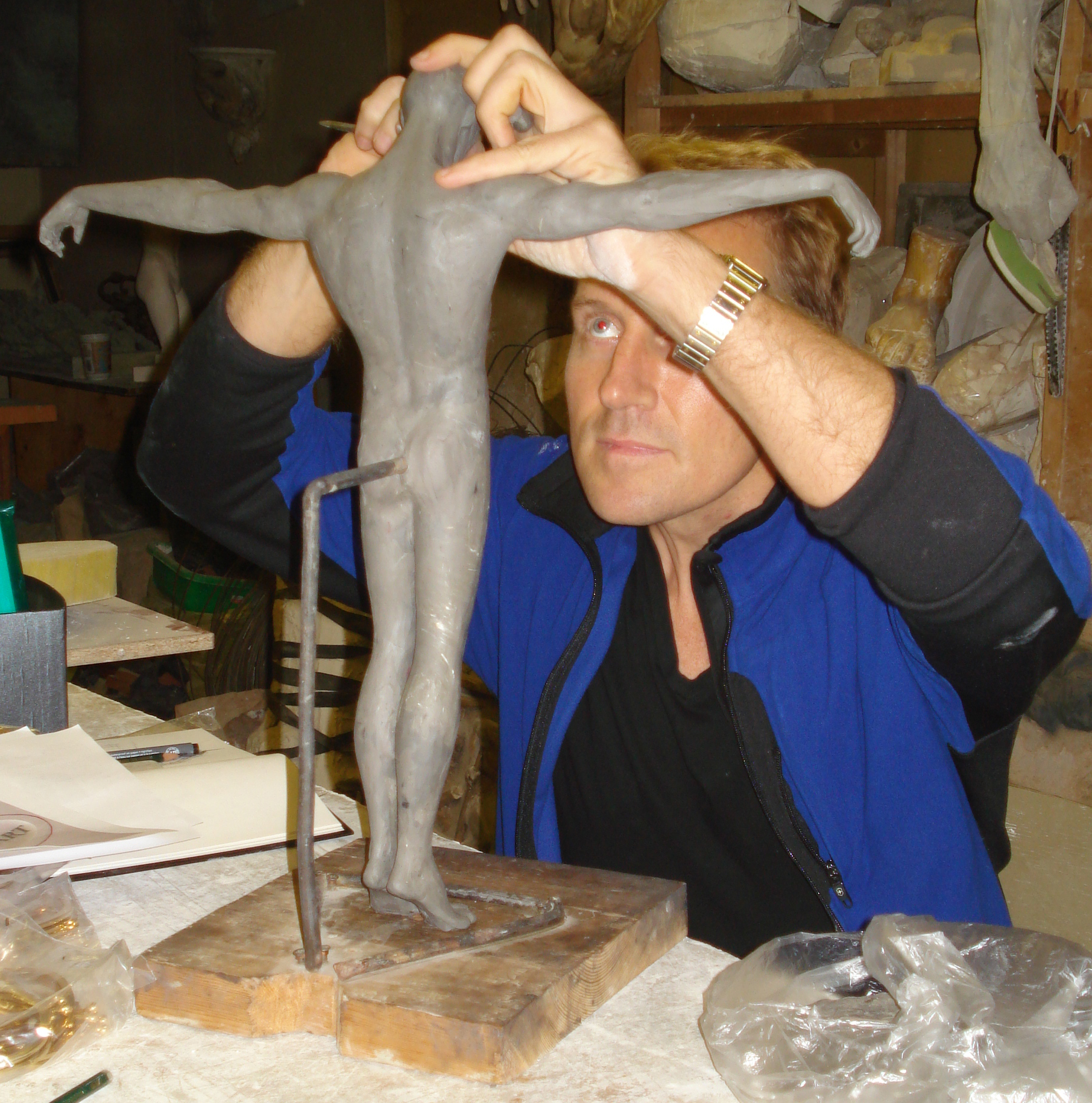 Vladimir Kush molding his sculpture Pros and Cons, based on his painting of the same name